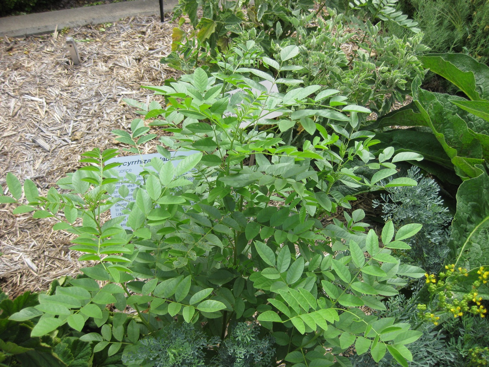 Photographed at the Royal Botanic Gardens Sydney (Australia) in January